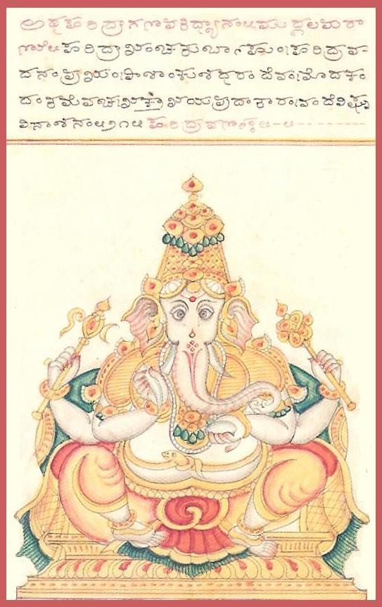 Depiction of Haridra Ganapati. Upper area shows a description of the form as a meditation verse written in Kannada script. Reproduction from the Sritattvanidhi ("The Illustrious Treasure of Realities"), an iconographic treatise compiled in the 19th century in Karnataka, India, by order of the then Maharaja of Mysore, Krishnaraja Wodeyar III (b. 1794 - d. 1868).